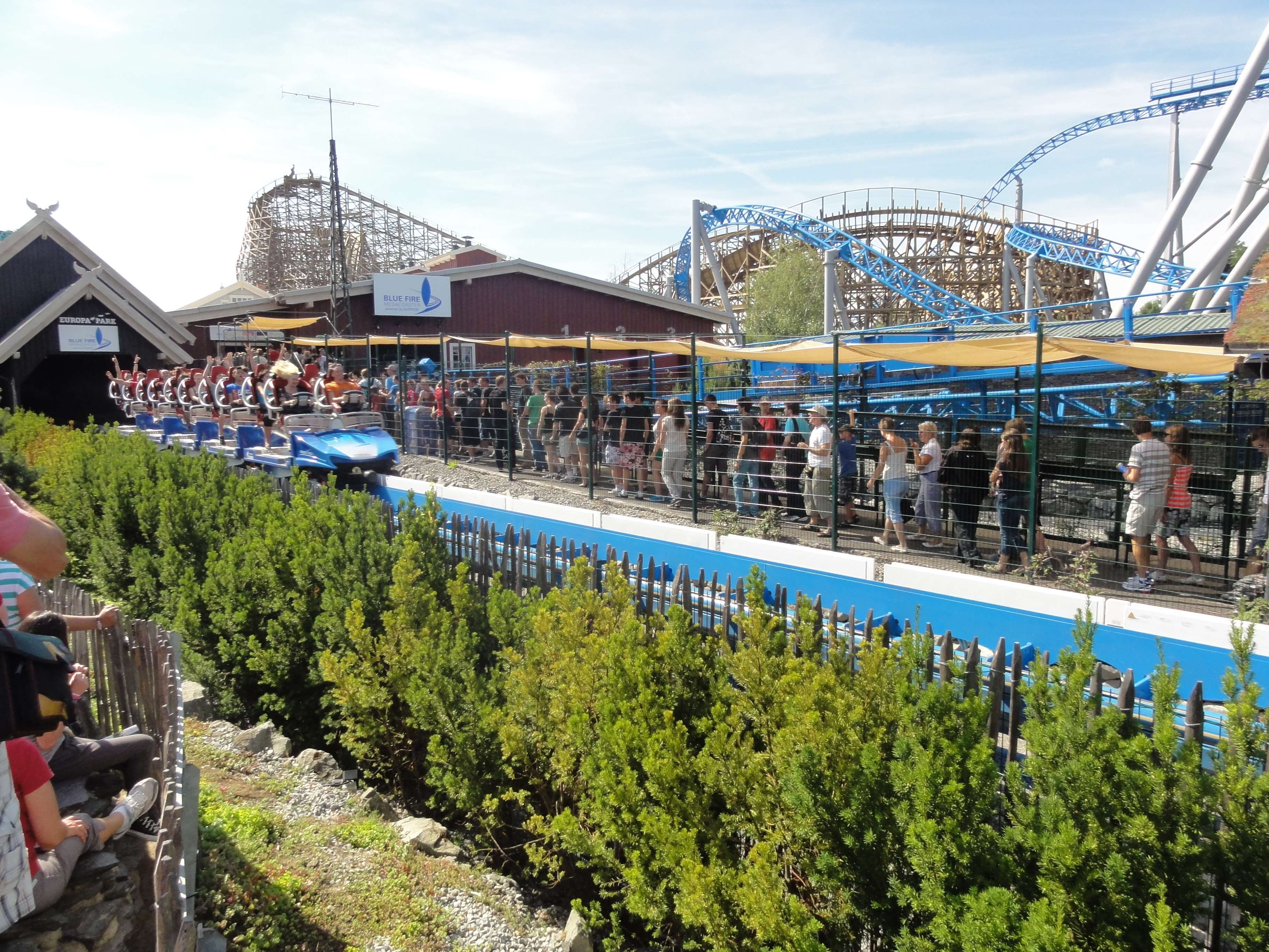 Blue Fire Megacoaster, Europa-Park, Rust, Baden-Württemberg, Germany.